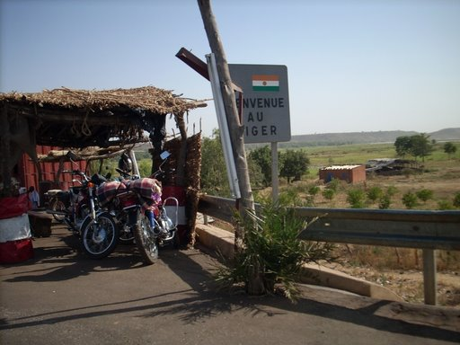 Border between Bénin and Niger, Gaya